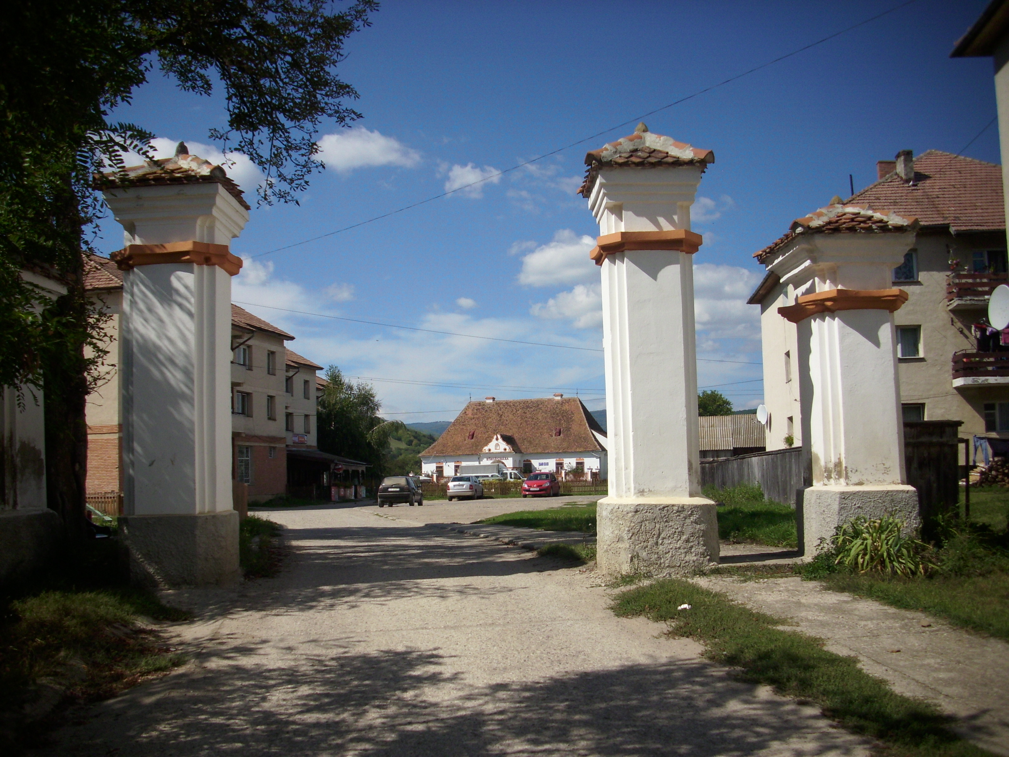 It's a mansion with the gateway which was built between the XVIII. century and the XIX. century. The photo was taken in 2013 september.